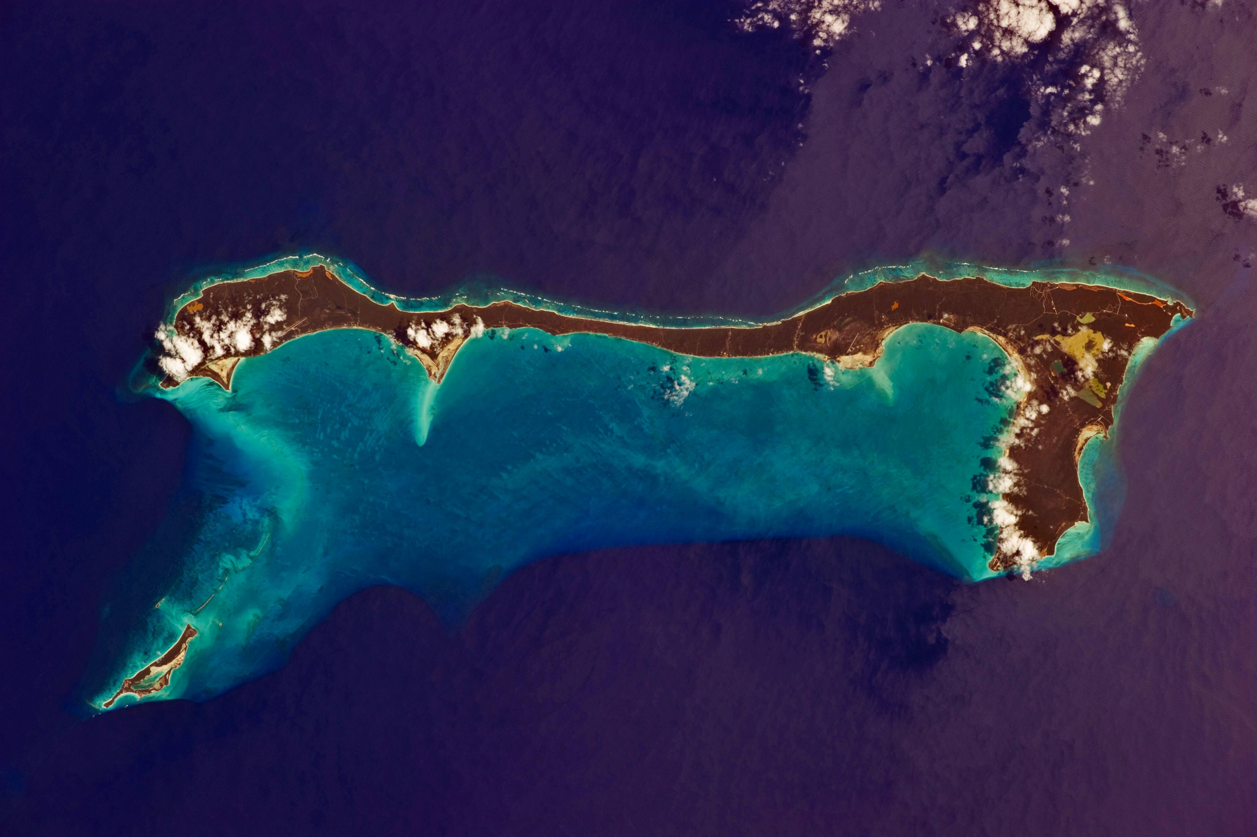 Like most other islands in the Bahamas, Cat Island is located on a large depositional platform that is composed mainly of carbonate sediments and surrounding reefs. The approximately 77 kilometre-long island is the part of the platform continuously exposed above water, which allows for soil development (brown to tan areas) and the growth of vegetation. Shallow water to the west-south-west (below the island in this view) appears bright blue, in contrast to the deeper ocean waters to the north, east, and south. In this astronaut photograph, the ocean surface near the south-eastern half of the island has a slight grey tinge due to sun-glint, or light reflecting off the water surface back towards the International Space Station. Small white cumulus clouds obscure some parts of the island.